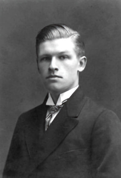 Dutch sculptor Oswald Wenckebach, around 1913